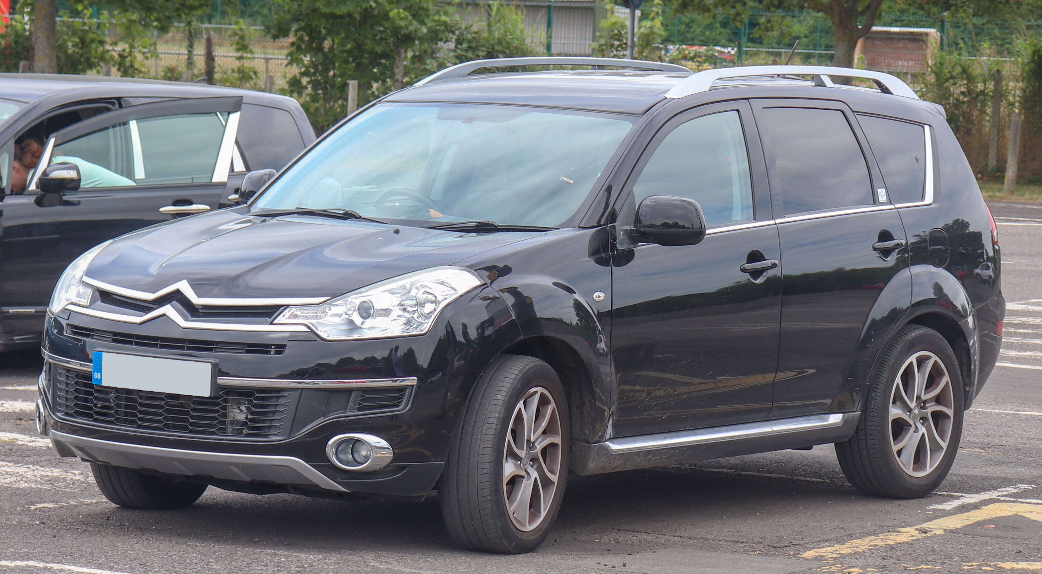 2008 Citroen C-Crosser Exclusive HDi 2.2 Taken in Weymouth, Dorset